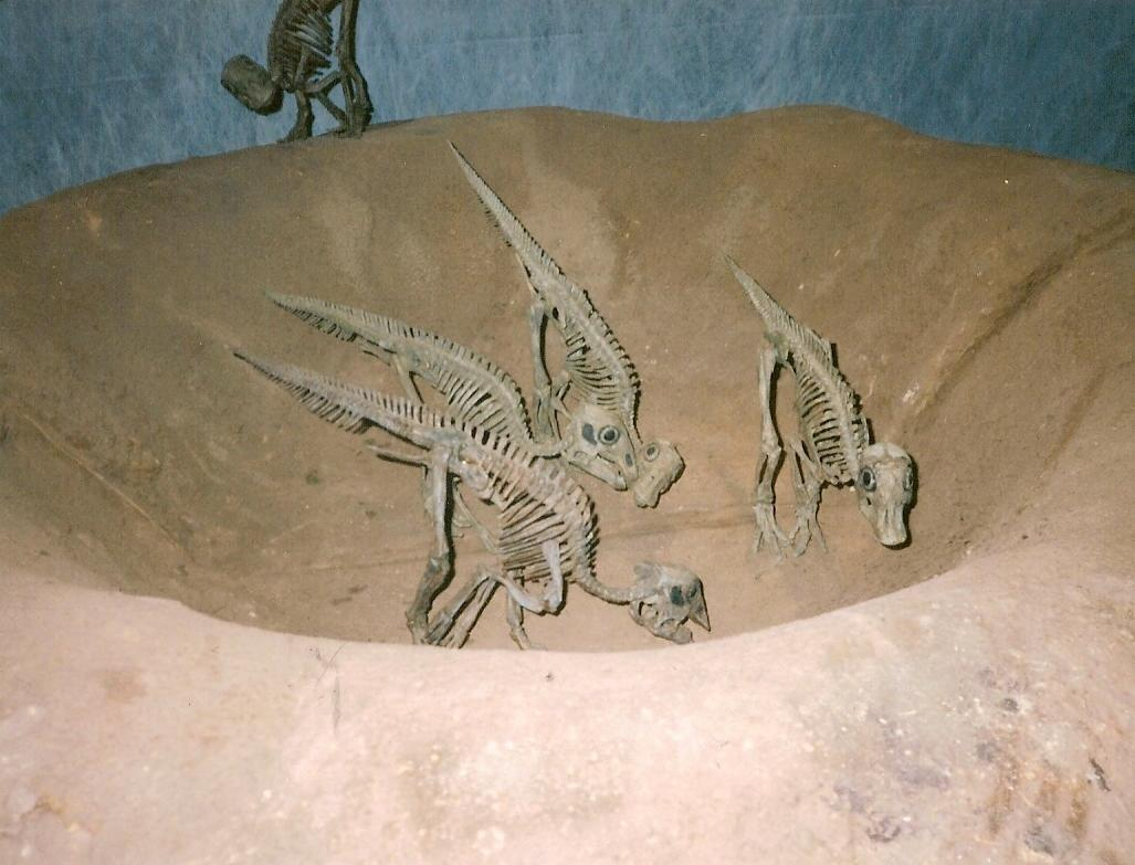 Juvenile Maiasaura.